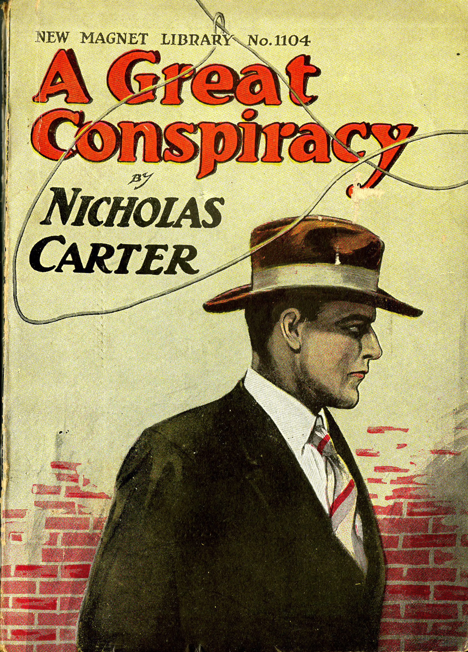 Cover illustration from A Great Conspiracy by Nicholas Carter, published ca 1903 as part of The New Magnet Library. From the collection at The George Peabody Library of The Johns Hopkins University.